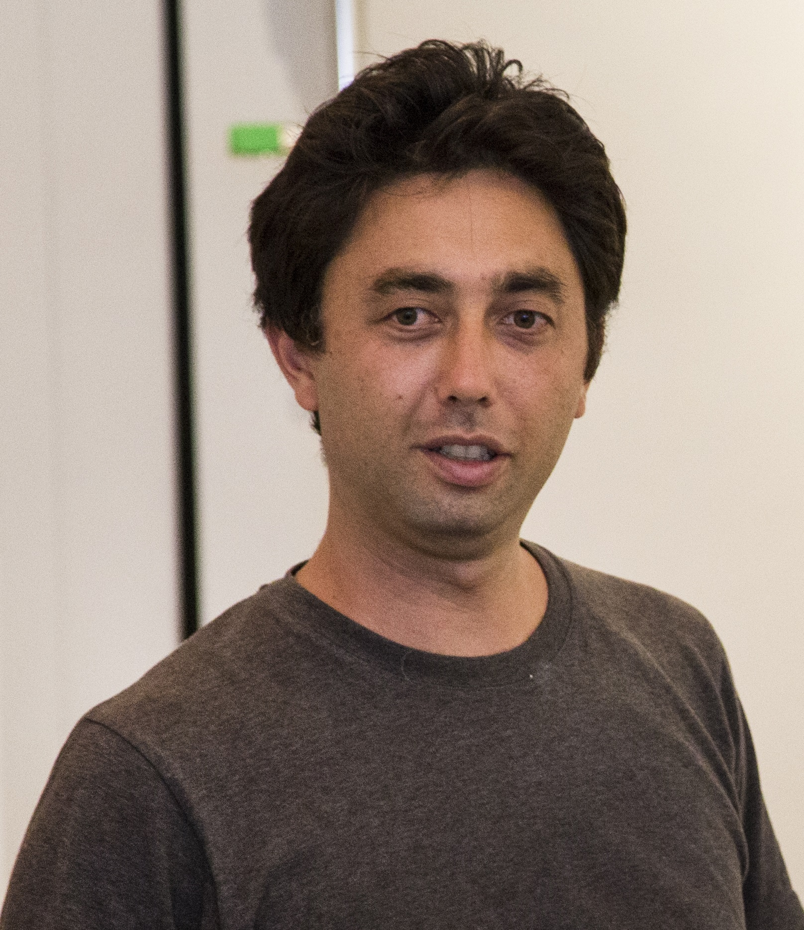 David Horvitz meets with the New York Arts Practicum at Recess